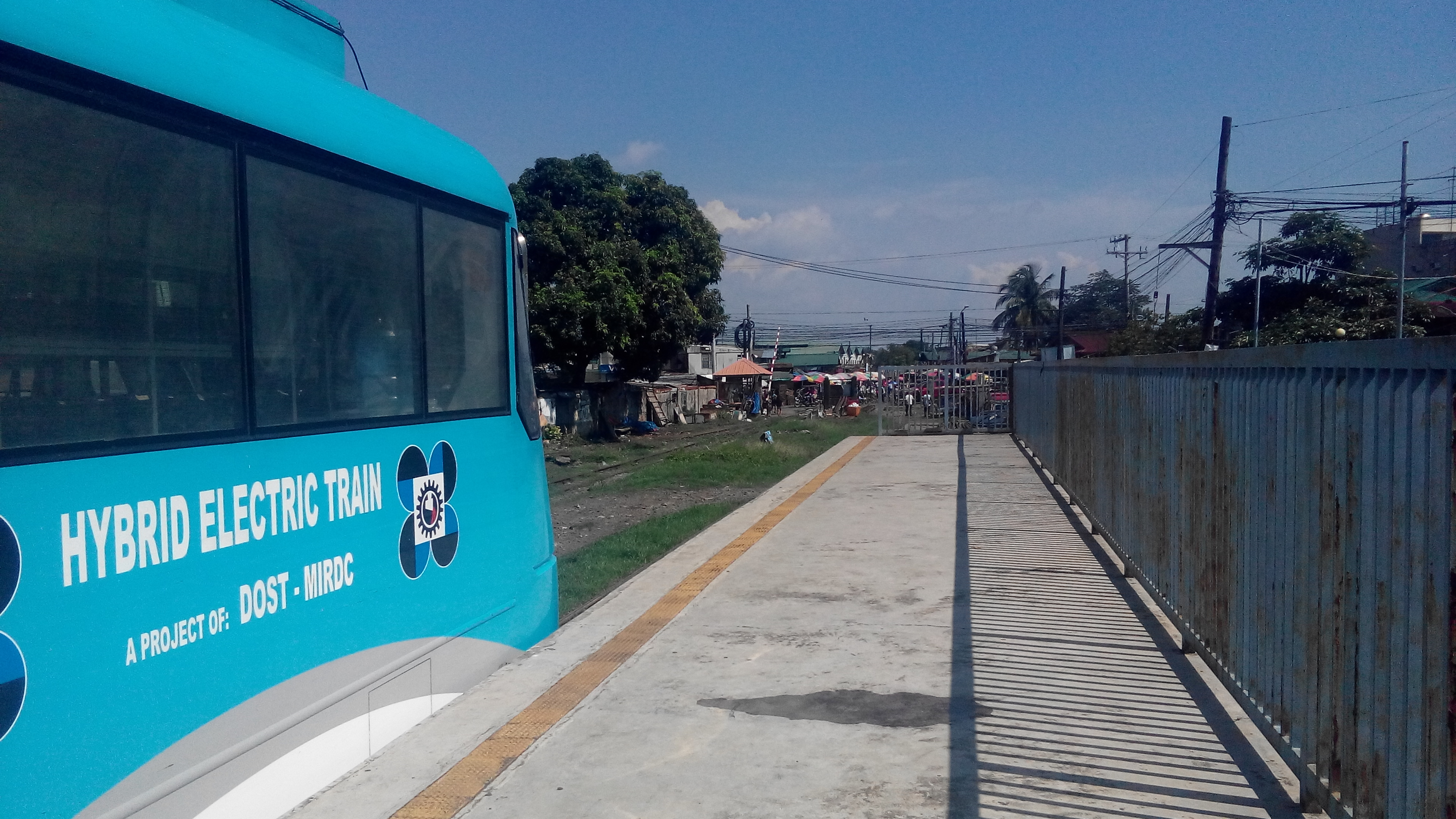 View from the Calamba station platform towards Manila direction, DOST-MIRDC Hybrid Electric Train (HET) awaiting departure.